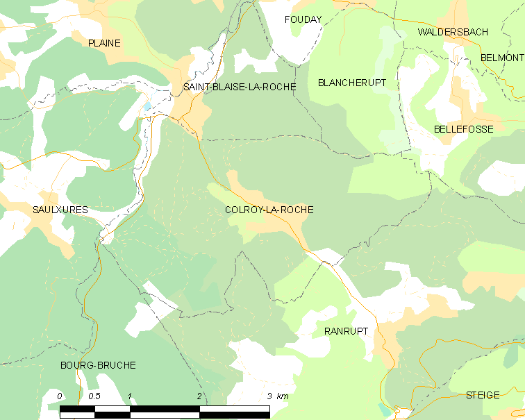 Map of French municipality